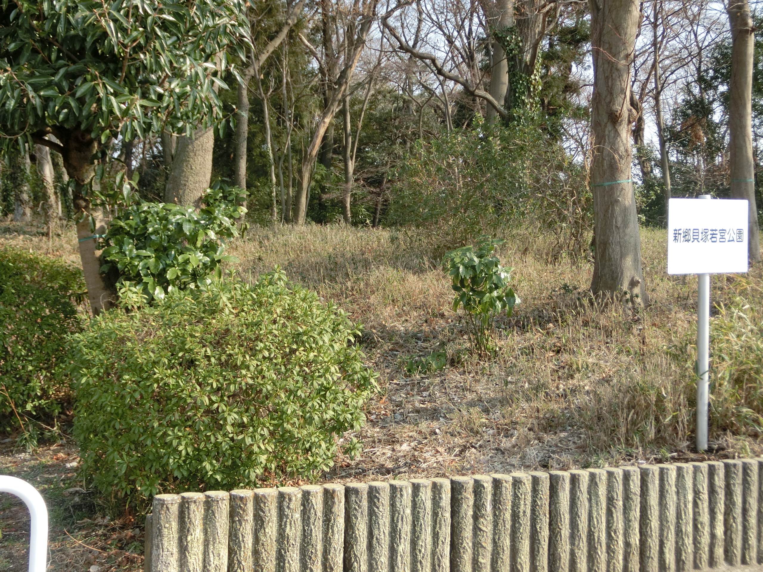 Shingo Shell Midden